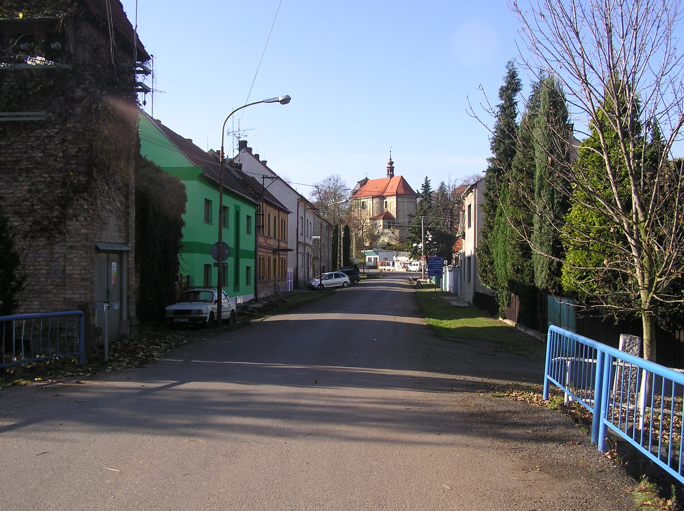 Street in Hřivice